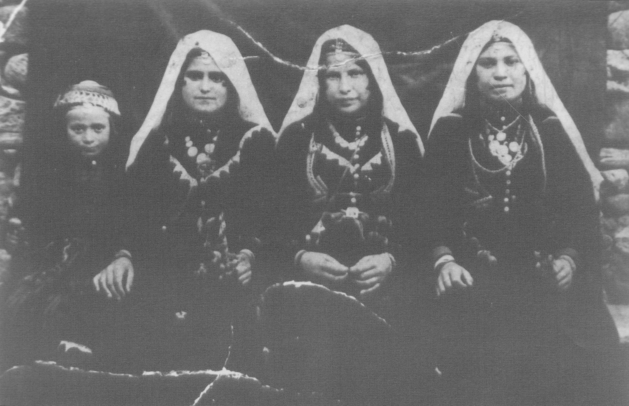 Pomak women from the village of Mugla - 1934